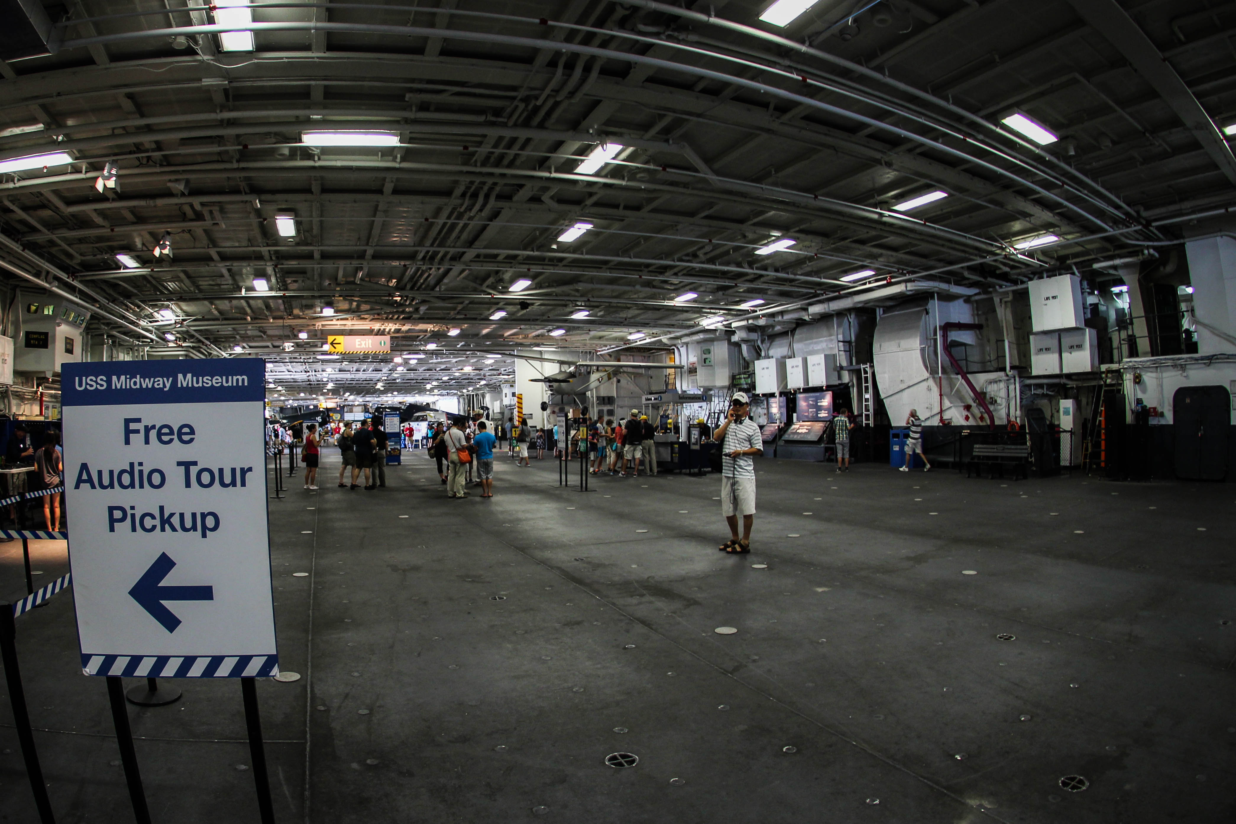 The start of the exhibition on the museumship "USS Midway".